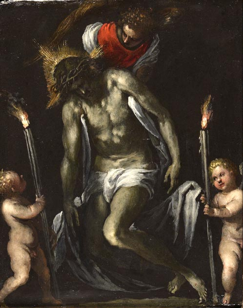 The Dead Christ Supported by an Angel with two putti each supporting a Cero